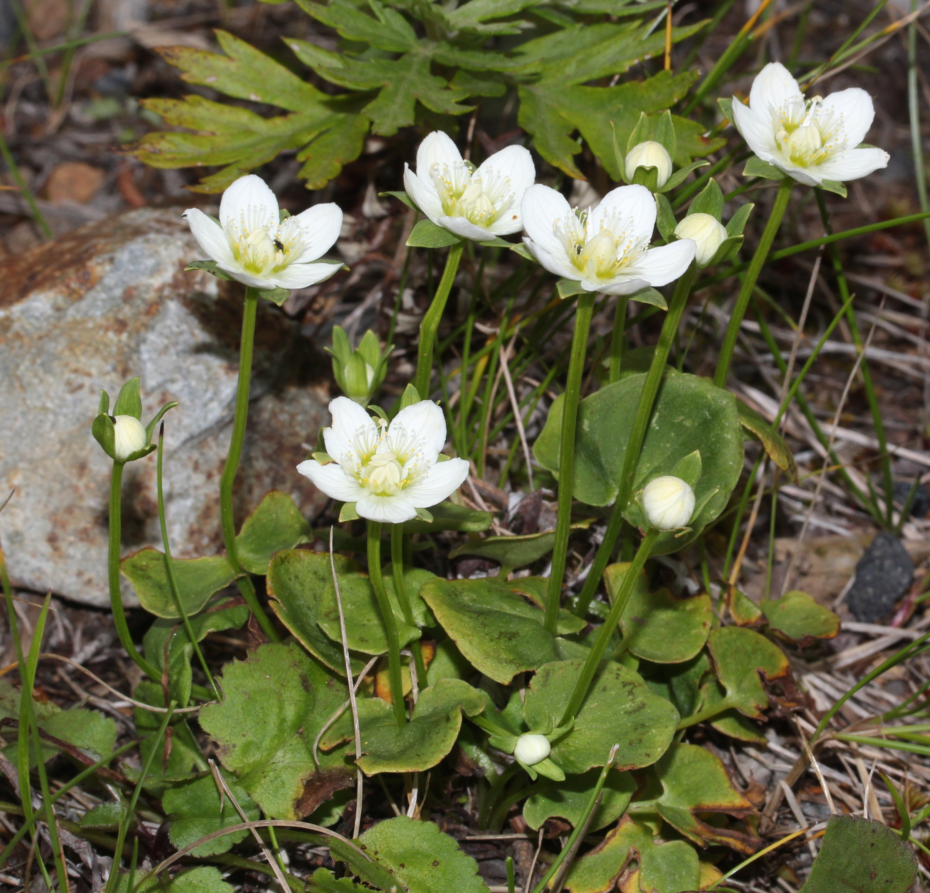 Parnassia palustris L. var. palustris in Mount Ontake, Ōtaki, Nagano prefecture, Japan.